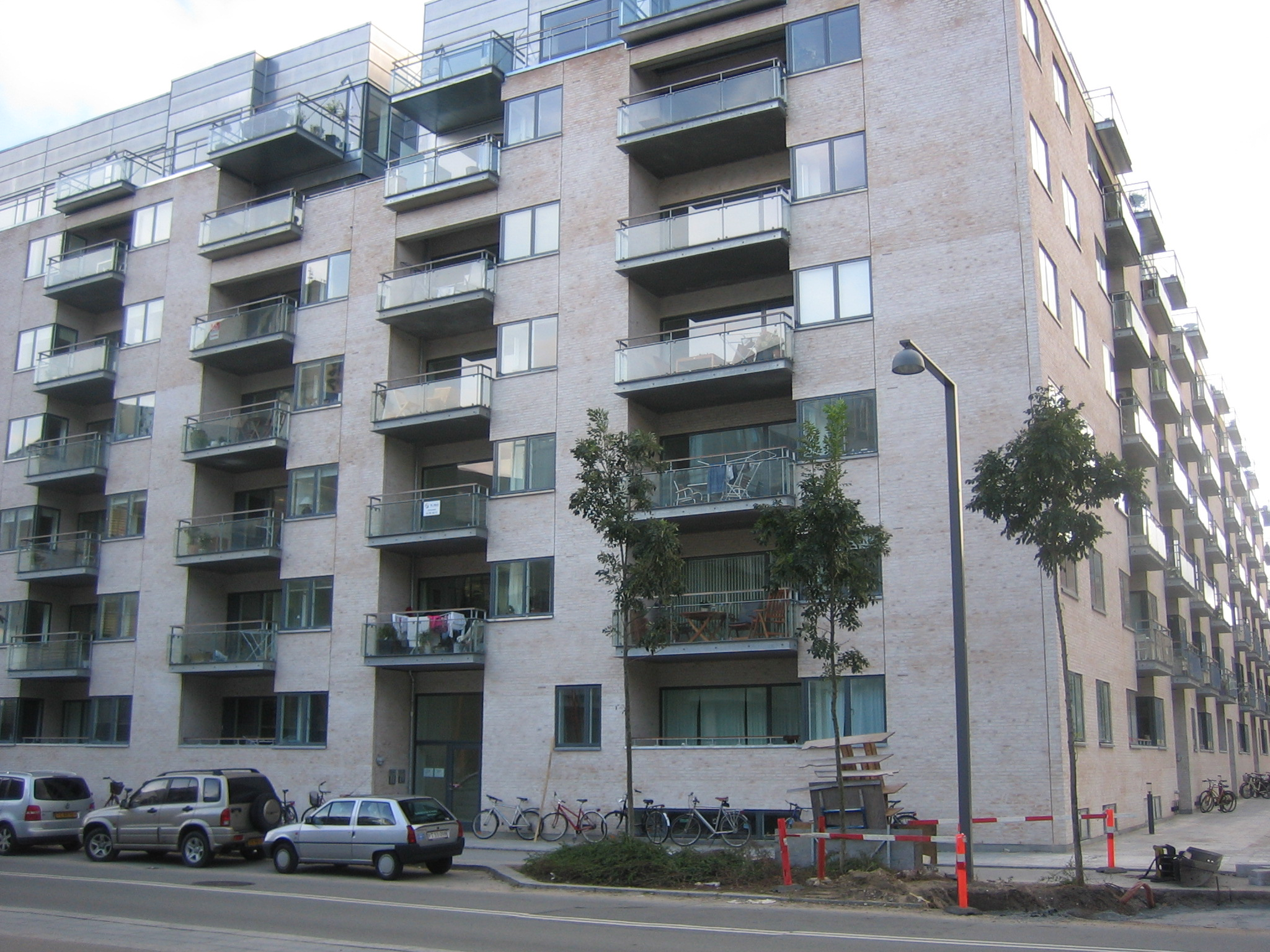 Picture of Admiralens Gaard at Islands Brygge, Copenhagen